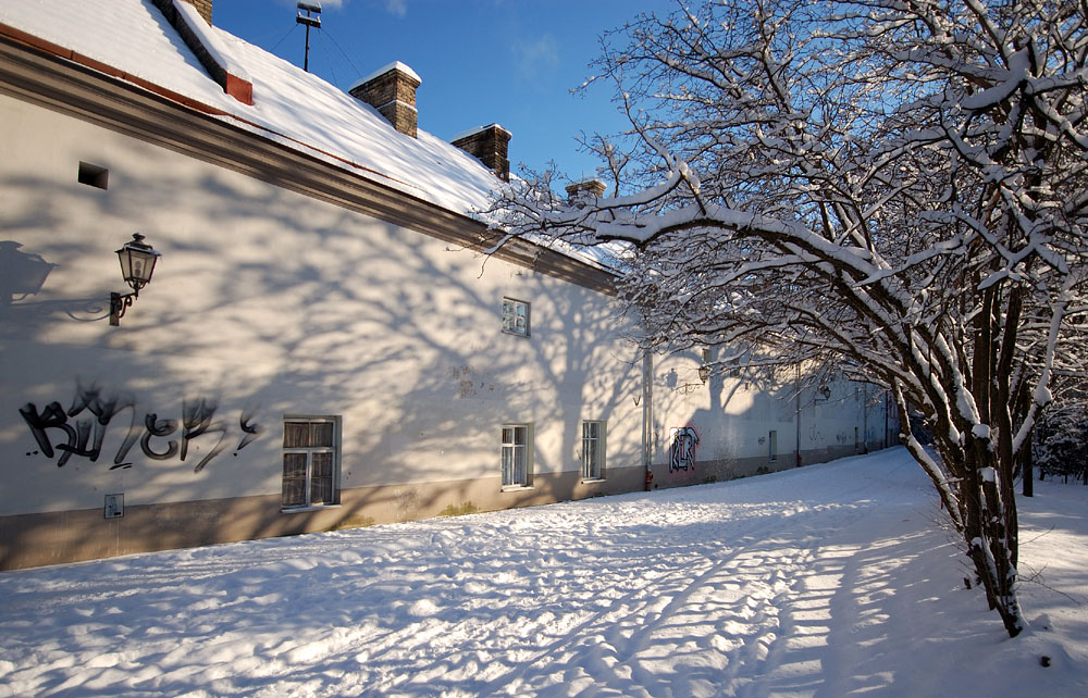 Bernardine Monastery in Vilnius